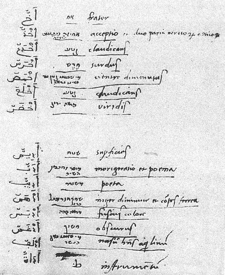 An alphabet page from Arabic-Hebrew-Latin dictionary. Letter Alif